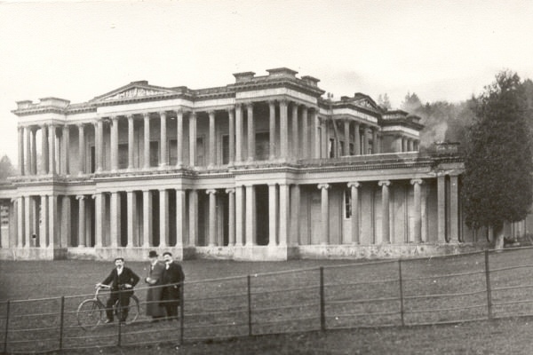 Pre-1901 photograph of Silverton Park, Silverton, Devon, built 1839-45, demolished 1901